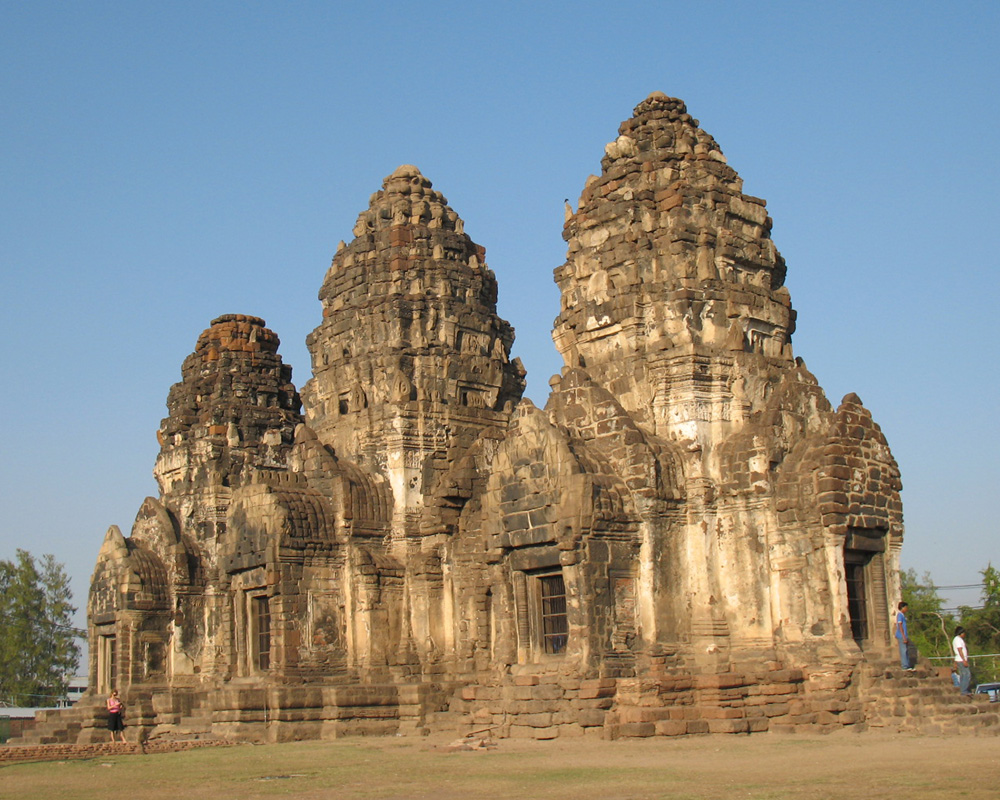 Prang Sam Yot, one of symbols of Lopburi.